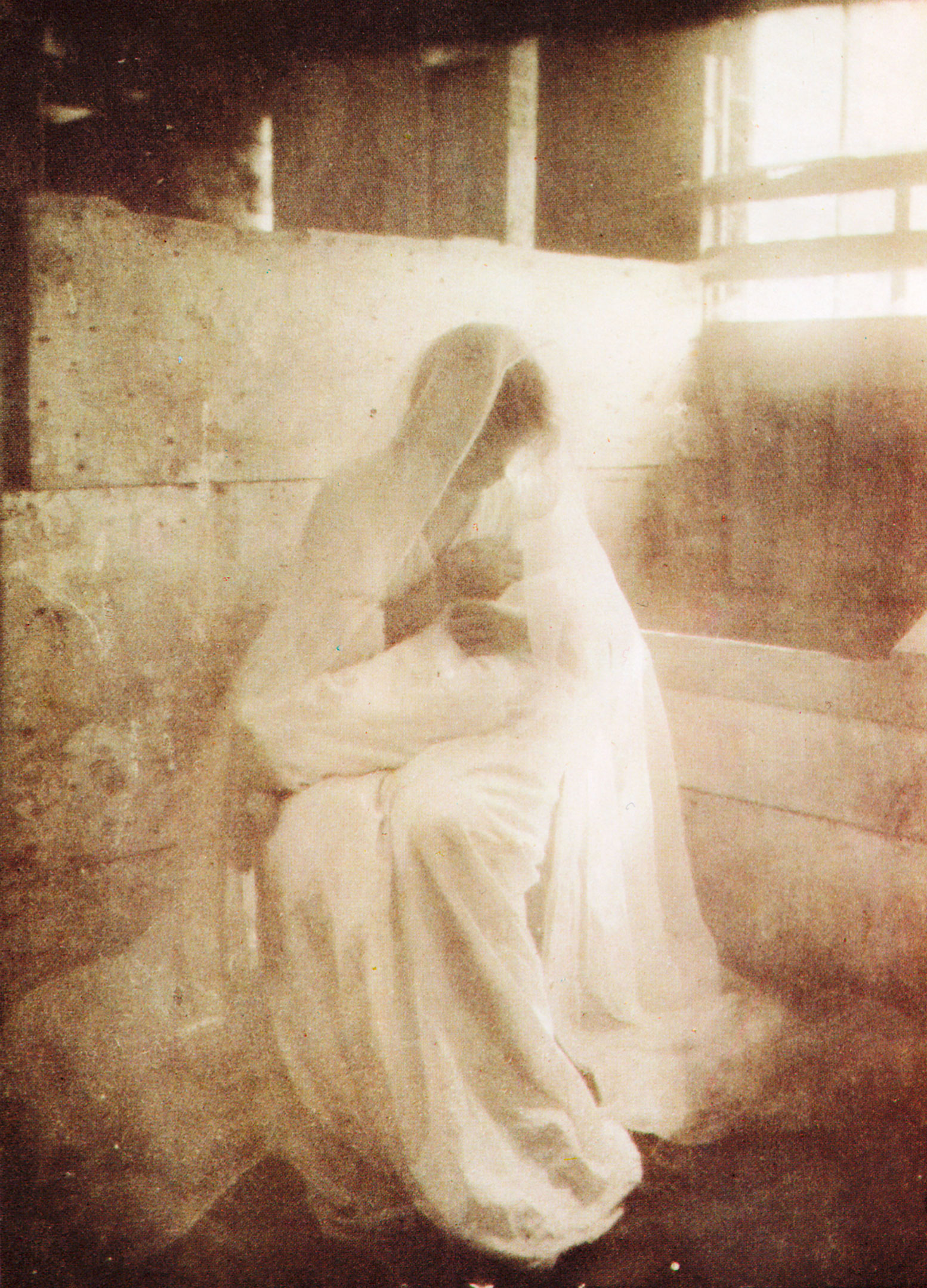 "The Manger", photograph by Gertrude Käsebier